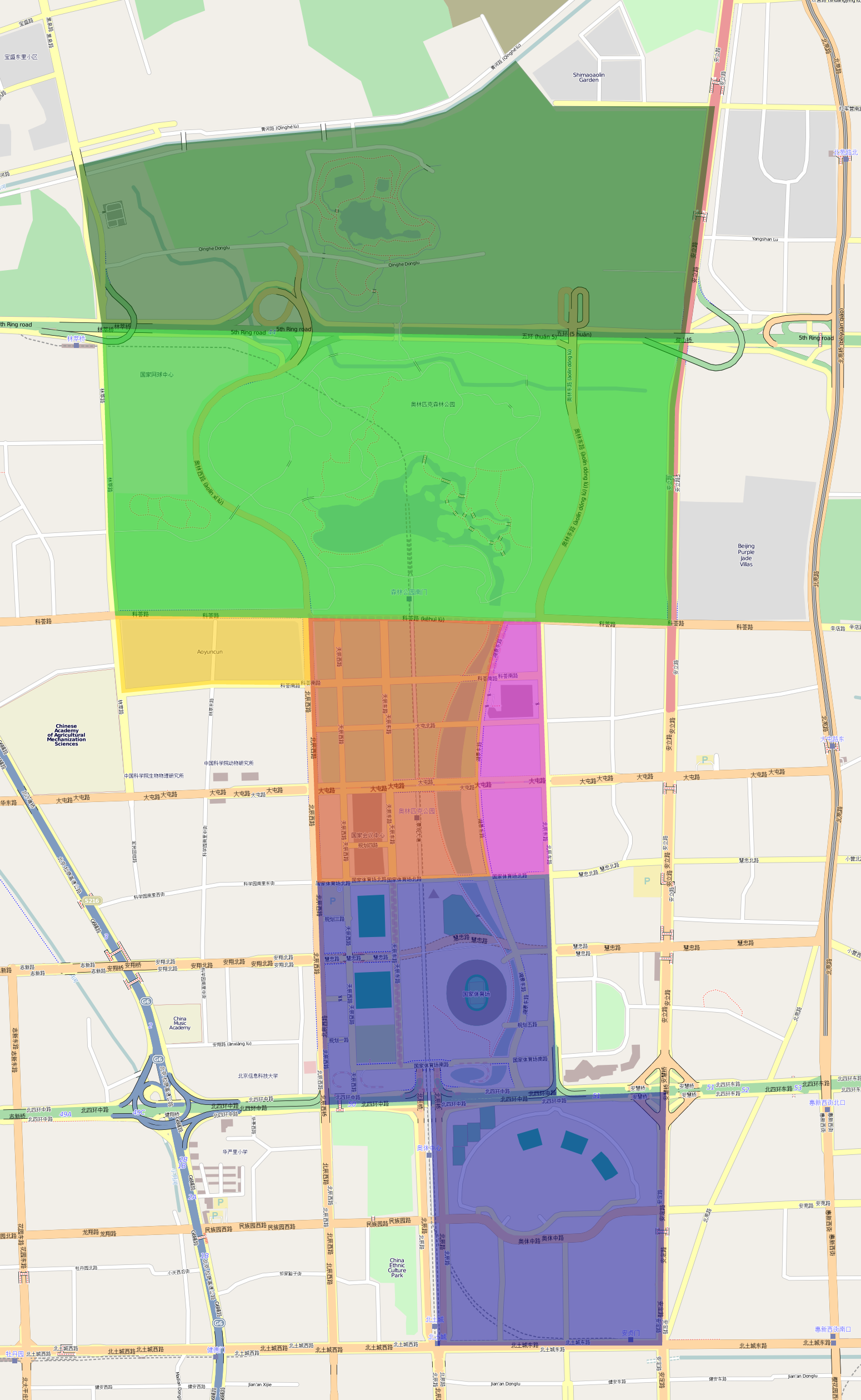 The map of Olympic Green, Beijing, colored by subareas inside. Differ from the commonly used File:Olympic Green map colored.png. Dark Green - Ecological and Healthy Zone, (Chinese: 生态康体区) Light Green - Forest Fun Zone, (Chinese: 森林游憩区) Yellow - The Olympic Village, Red - Featured Commercial Zone, (Chinese: 特色商业区) Pink - Cultural, Science and Education Zone, (Chinese: 文化科教片区) Blue - Sports Venue Zone. (Chinese: 体育功能区) All the above except yellow is the five zones in the plan.